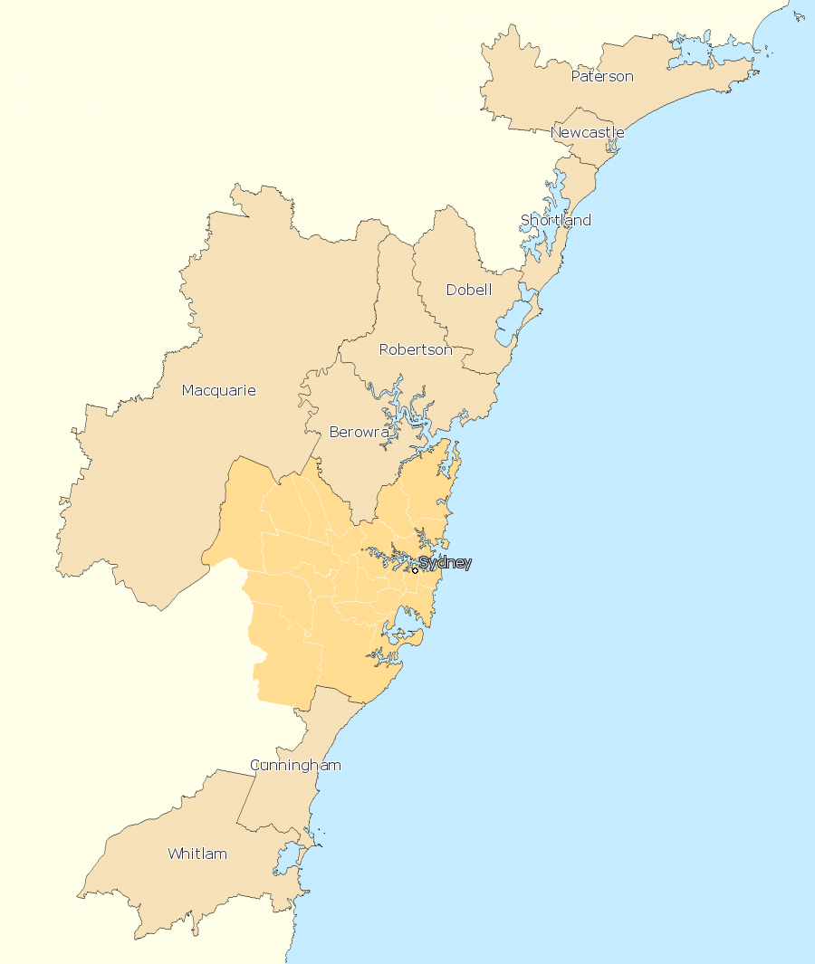 Incorporates or developed using Administrative Boundaries ©PSMA Australia Limited licensed by the Commonwealth of Australia under Creative Commons Attribution 4.0 International licence (CC BY 4.0). Derived from State and Territory Boundaries from the Australian Bureau of Statistics under Creative Commons Attribution 2.5 Australia license (CC BY 2.5 AU)